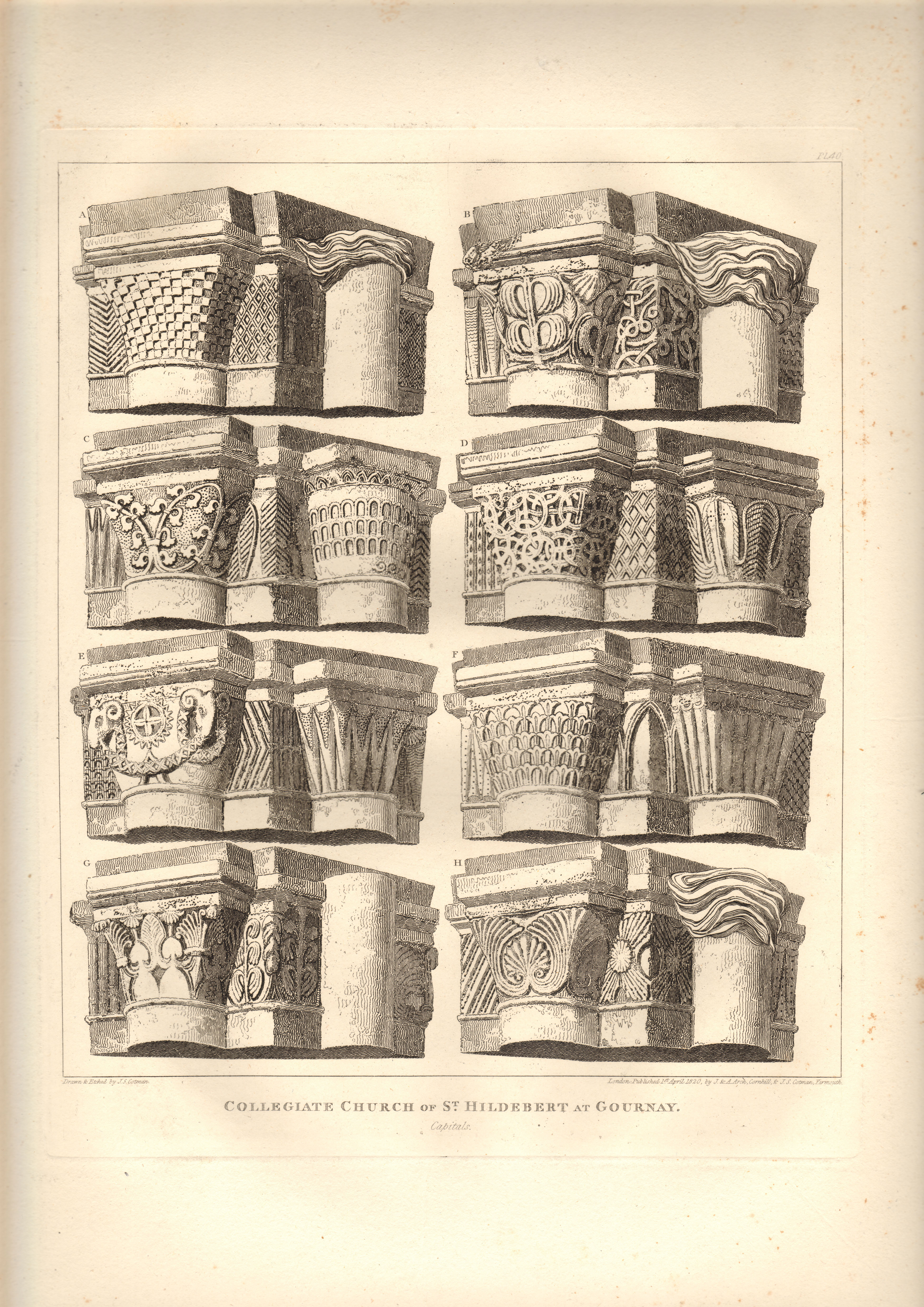 Engraving by JS Cotman of capitals from the collegiate church of St Hildebert at Gournay